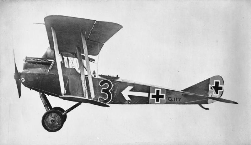 Side view of a German Rumpler C.VII two seat reconnaissance biplane with Mercedes or Maybach engines. One of the best German artillery observation aircraft in 1917, specialising in high altitude operations. Note: the plane is described as a C.V, but this was not produced.